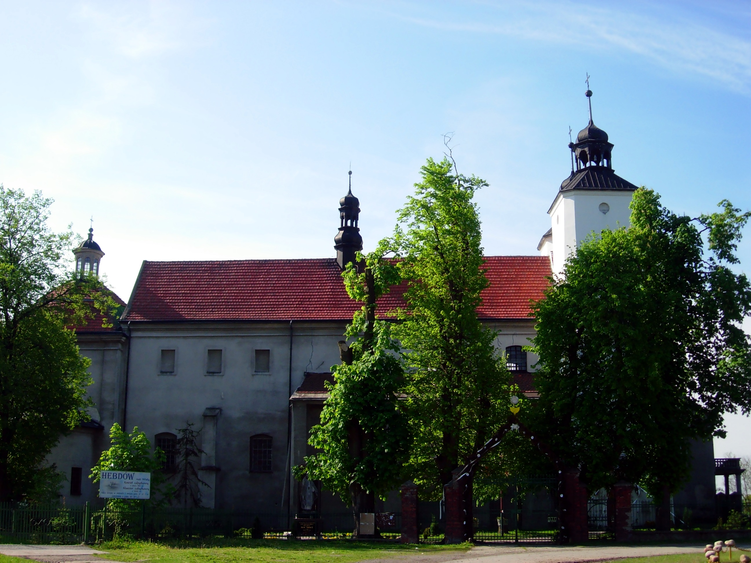 Monastery church in Hebdów, Poland